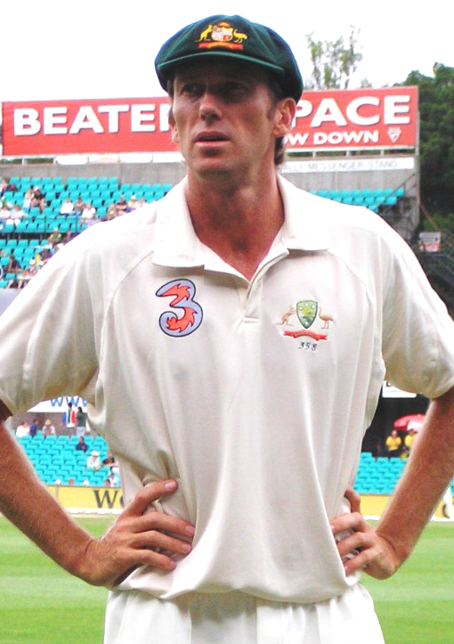 Glenn McGrath. Sydney Cricket Ground, Australia v. South Africa, 5 Jan 2006. Cropped from One Salient Oversight's photo, File:Glenn McGrath 01.jpg, with improved contrast.